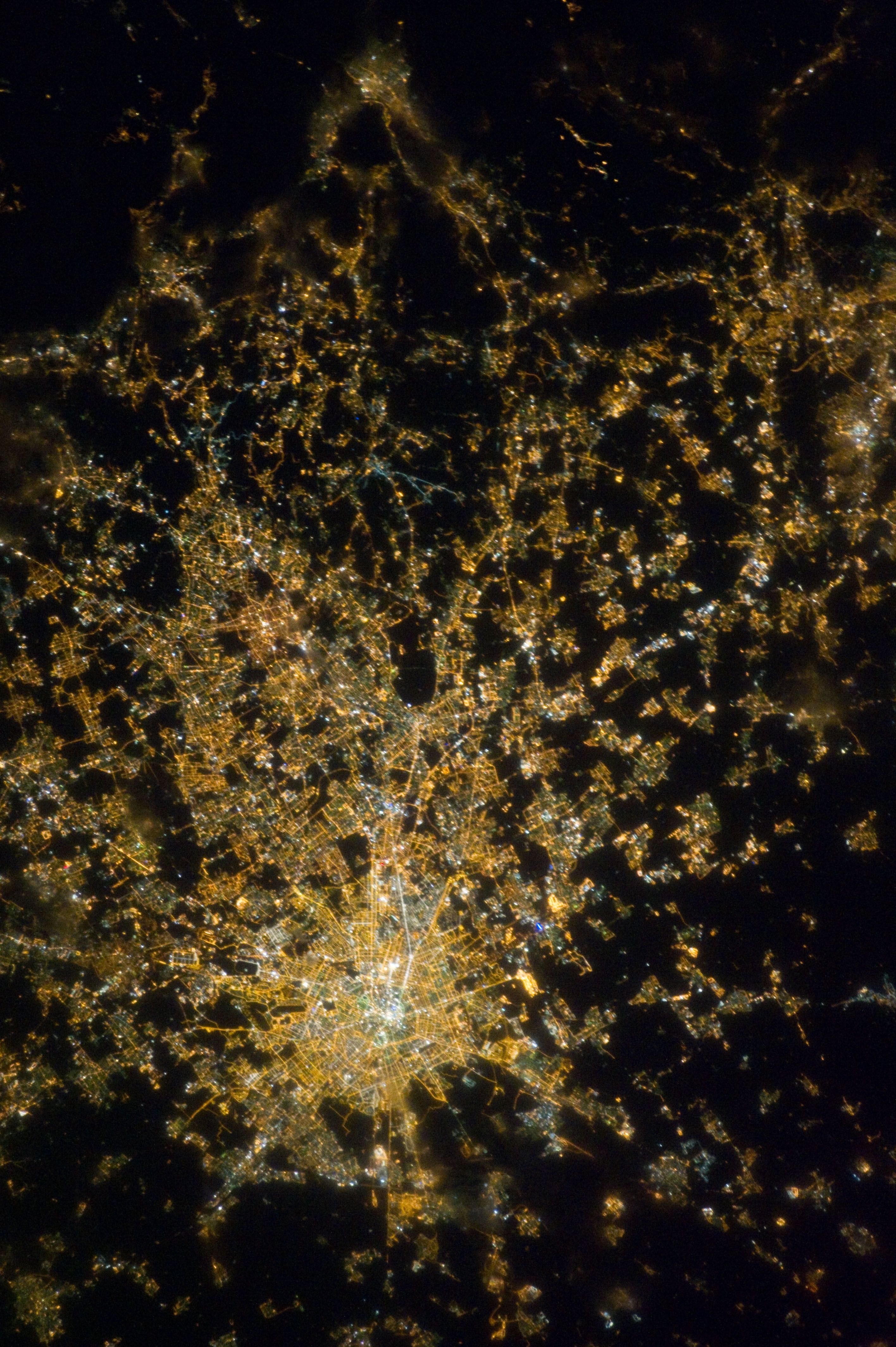 The metropolitan area of Milan (or Milano) illuminates the Italian region of Lombardy in a pattern evocative of a patchwork quilt. The city of Milan forms a dense cluster of lights in this astronaut photograph, with brilliant white lights indicating the historic center of the city where the Duomo di Milano (Milan Cathedral) is located. Large dark regions to the south contain mostly agricultural fields. To the north, numerous smaller cities are interspersed with agricultural fields, giving way to forested areas as one approaches the Italian Alps (not shown). Low, patchy clouds diffuse the city lights, producing isolated regions that appear blurred. The Milan urban area is located within the Po Valley, a large plain bordered by the Adriatic Sea to the east-southeast, the Italian Alps to the north, and the Ligurian Sea and Appenines Mountains to the south.